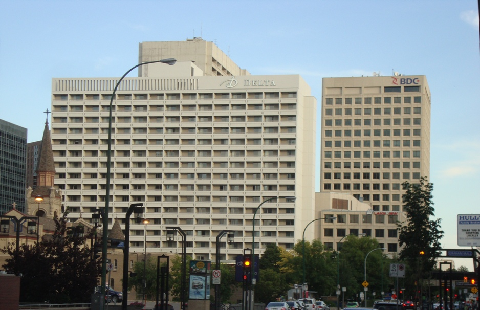 View of Lakeview Square development in Winnipeg, looking south on Carlton Street